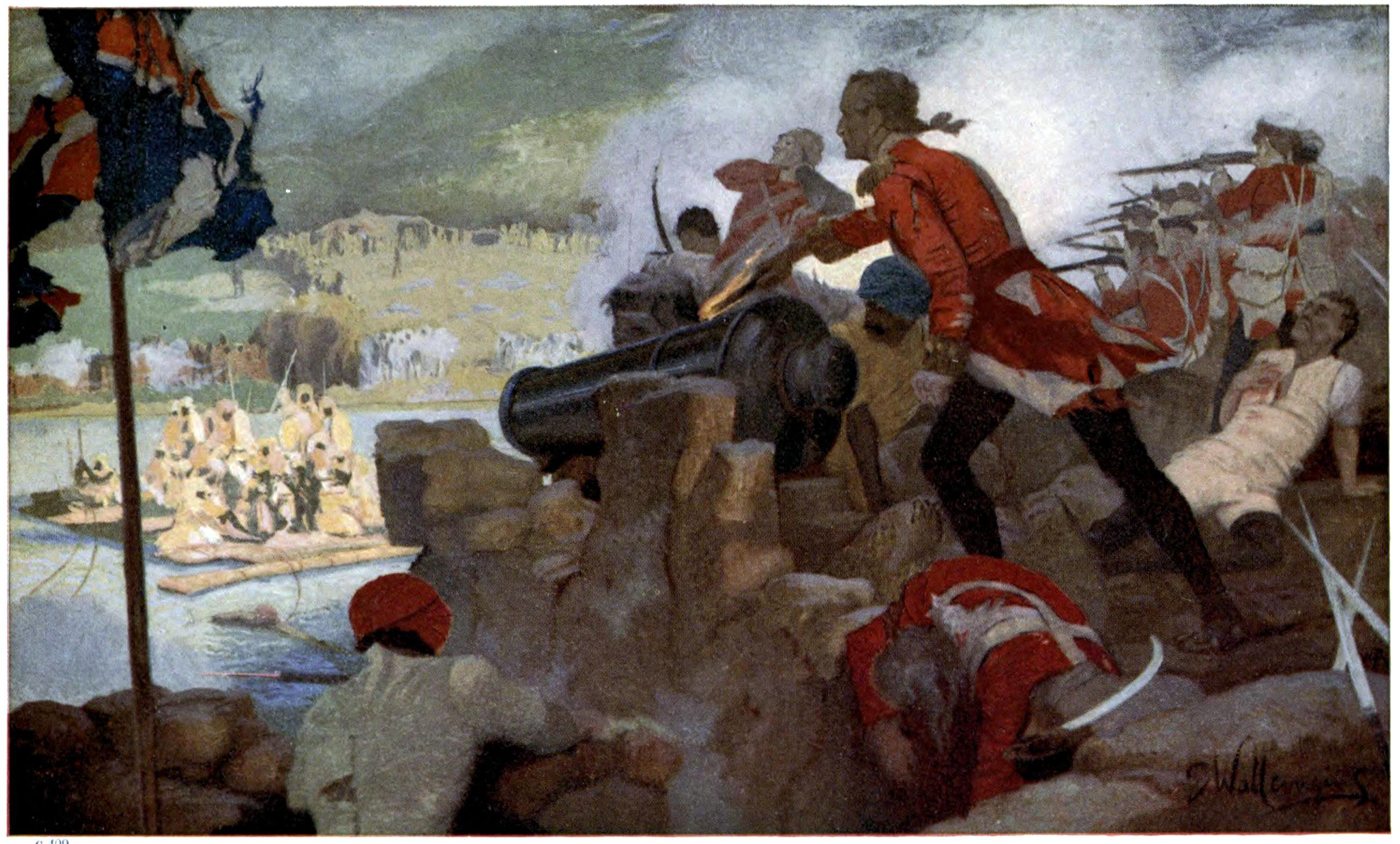 Colour plate by Ernest Wallcousins. Taken from the book Pioneers in India, by Johnston, Harry Hamilton, Sir, 1858-1927 Publication date 1913 Topics India -- Discovery and exploration, India -- History European settlements 1500-1765, India -- History British occupation, 1765-1947 Publisher London [etc.] : Blackie and son, limited Collection cdl; americana Digitizing sponsor MSN Contributor University of California Libraries Language English Bookplateleaf 4 Call number SRLF:LAGE-230522 Camera 5D Collection-library SRLF Copyright-evidence Evidence reported by alyson-wieczorek for item pioneersinindia00johniala on June 18, 2007: no visible notice of copyright; stated date is 1913. Copyright-evidence-date 20070618175118 Copyright-evidence-operator alyson-wieczorek Copyright-region US Identifier pioneersinindia00johniala Identifier-ark ark:/13960/t8bg2ks7d Identifier-bib LAGE-230522 Lcamid 1020705142 Openlibrary_edition OL7099511M Openlibrary_work OL1094605W Pages 372 Full catalog record MARCXML